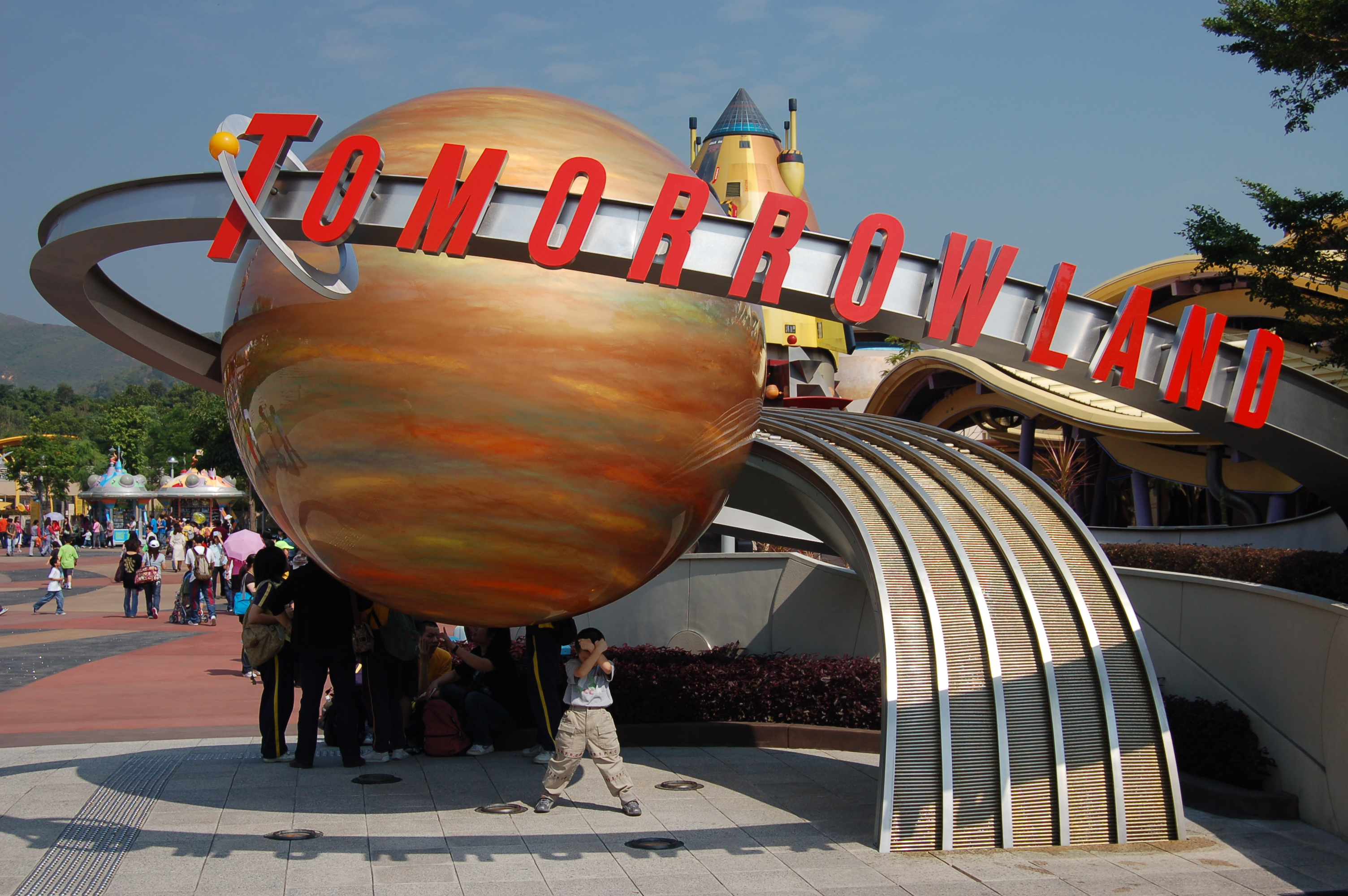 Tomorrowland